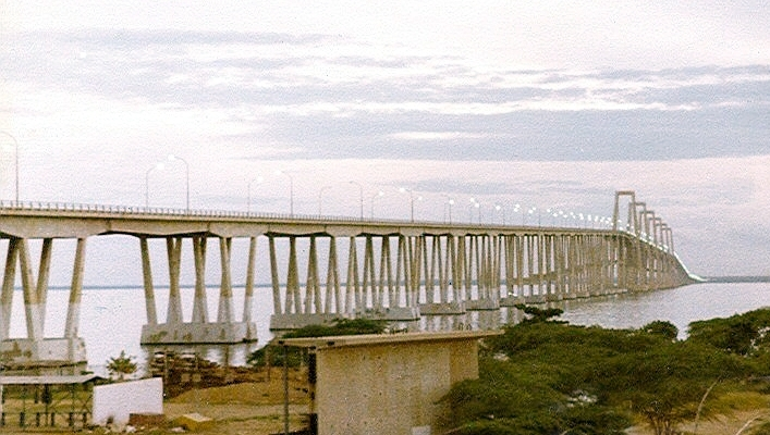 Rafael Urdaneta Bridge, Zulia state, Venezuela.